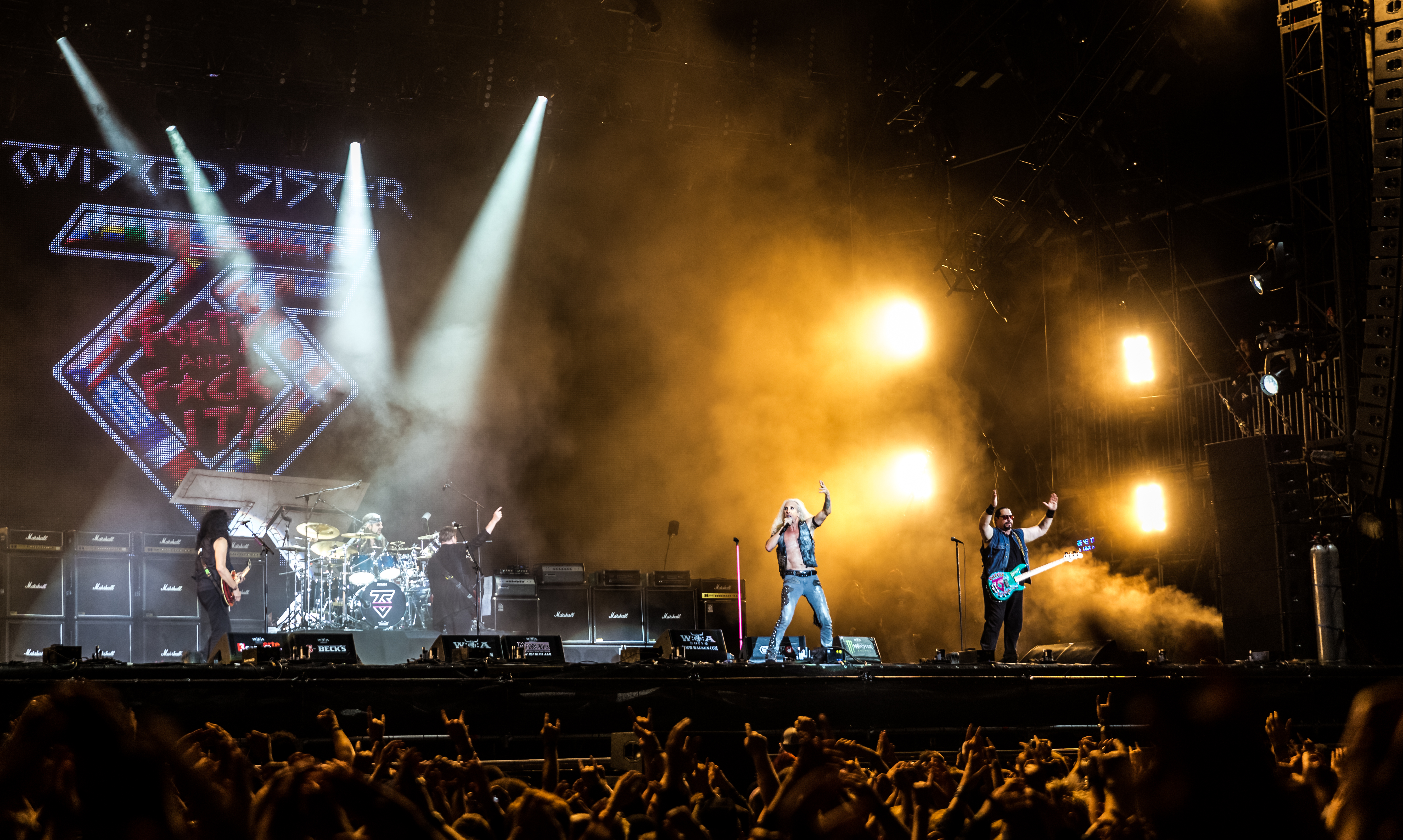 Twisted Sister - Wacken Open Air 2016